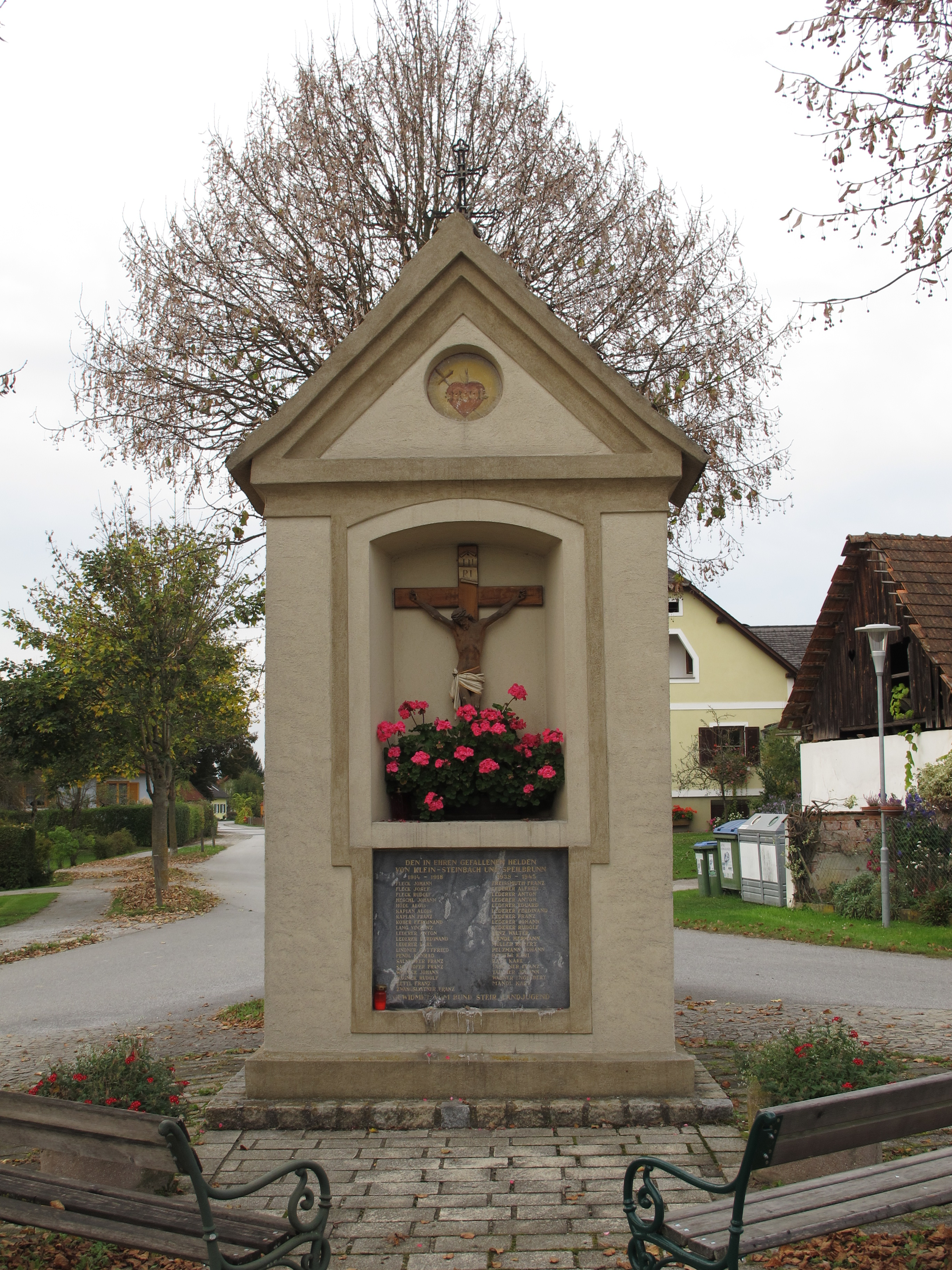 War Memorial Kleinsteinbach